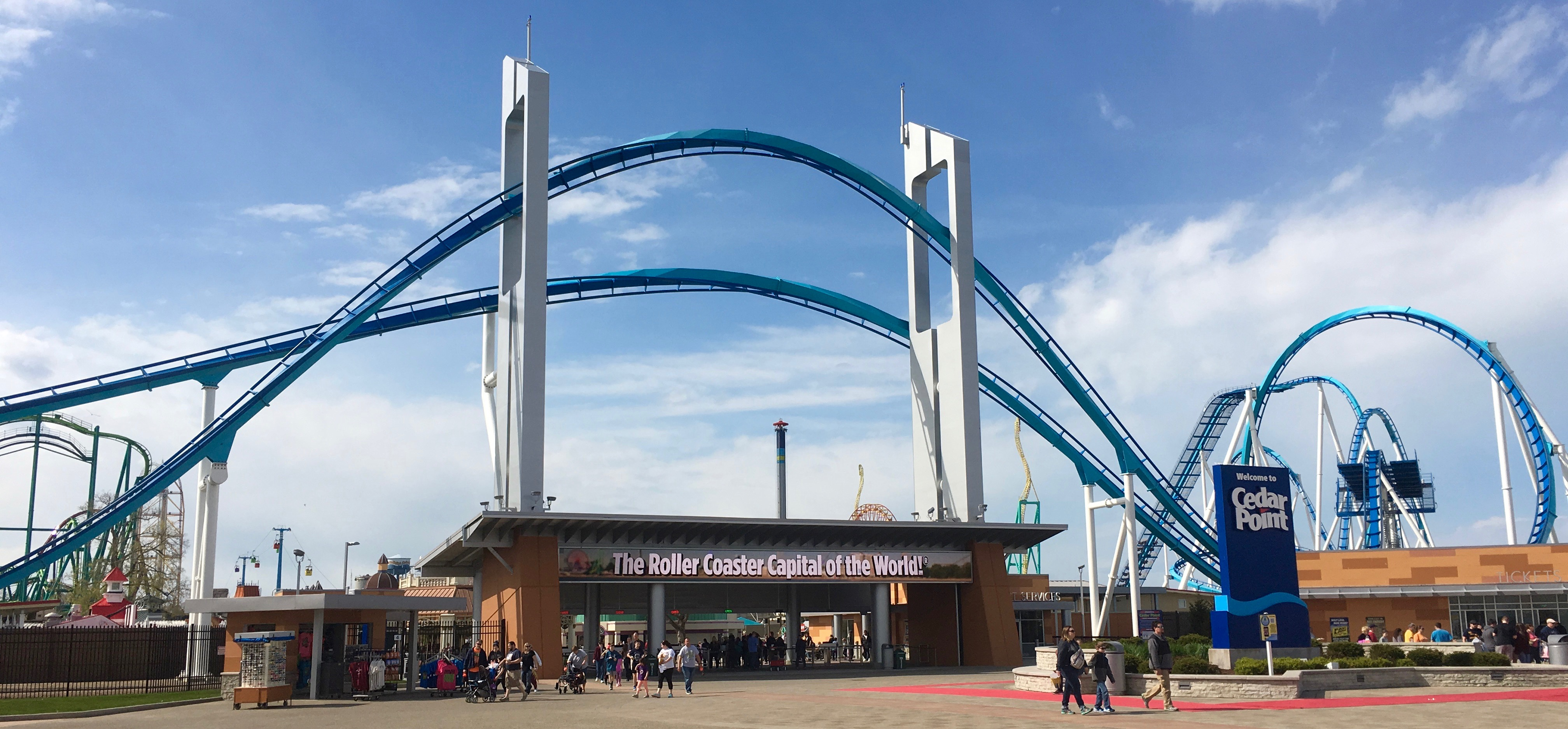 Main gates entrance to Cedar Point.